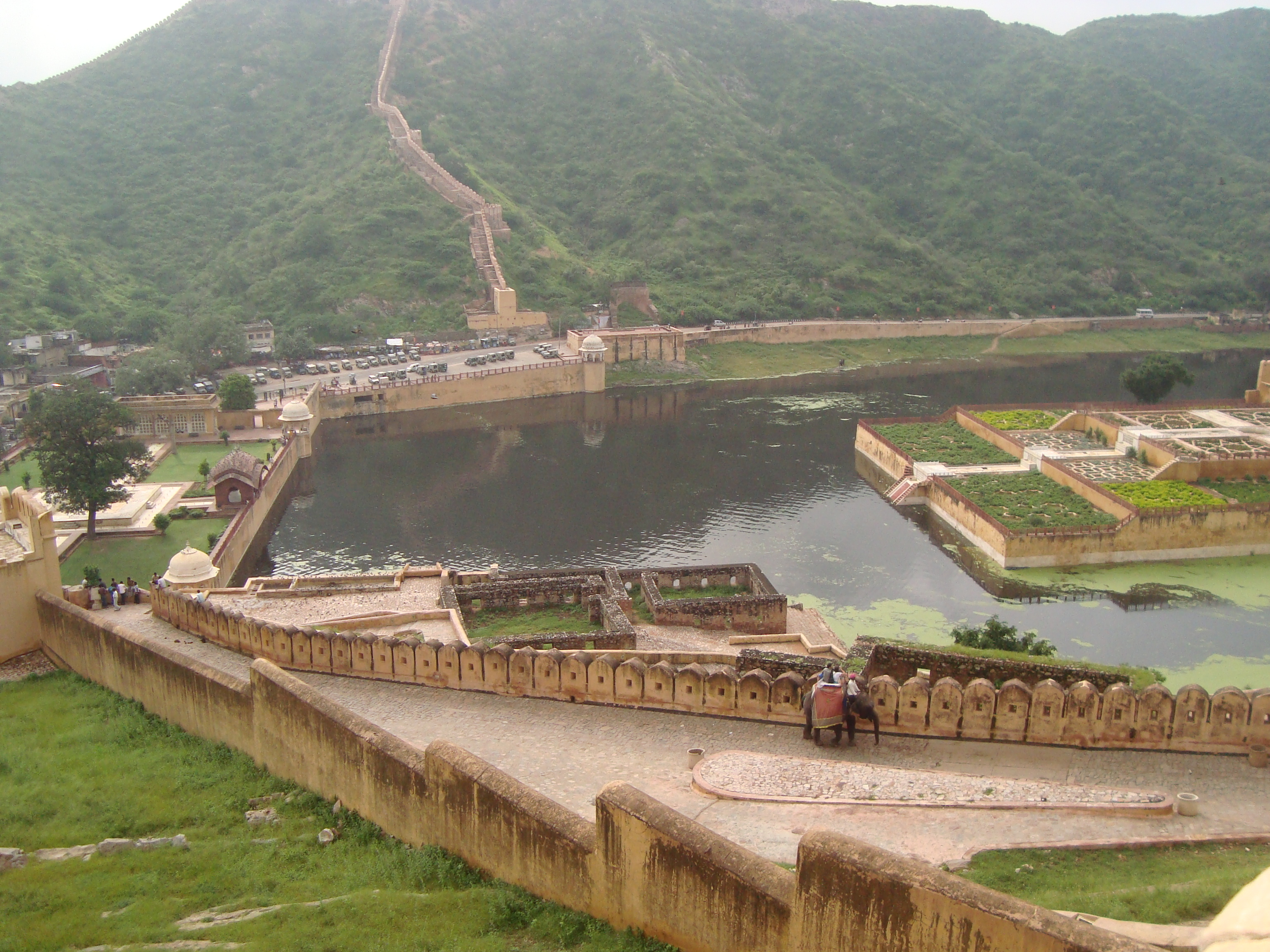 Amber Fort - Way to fort and Mahota Lake